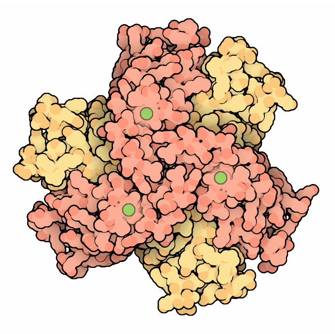 Space-fill drawing of the Ni-containing, hexameric form of the superoxide dismutase enzyme. Drawn by David Goodsell from PDB file 1Q0D.